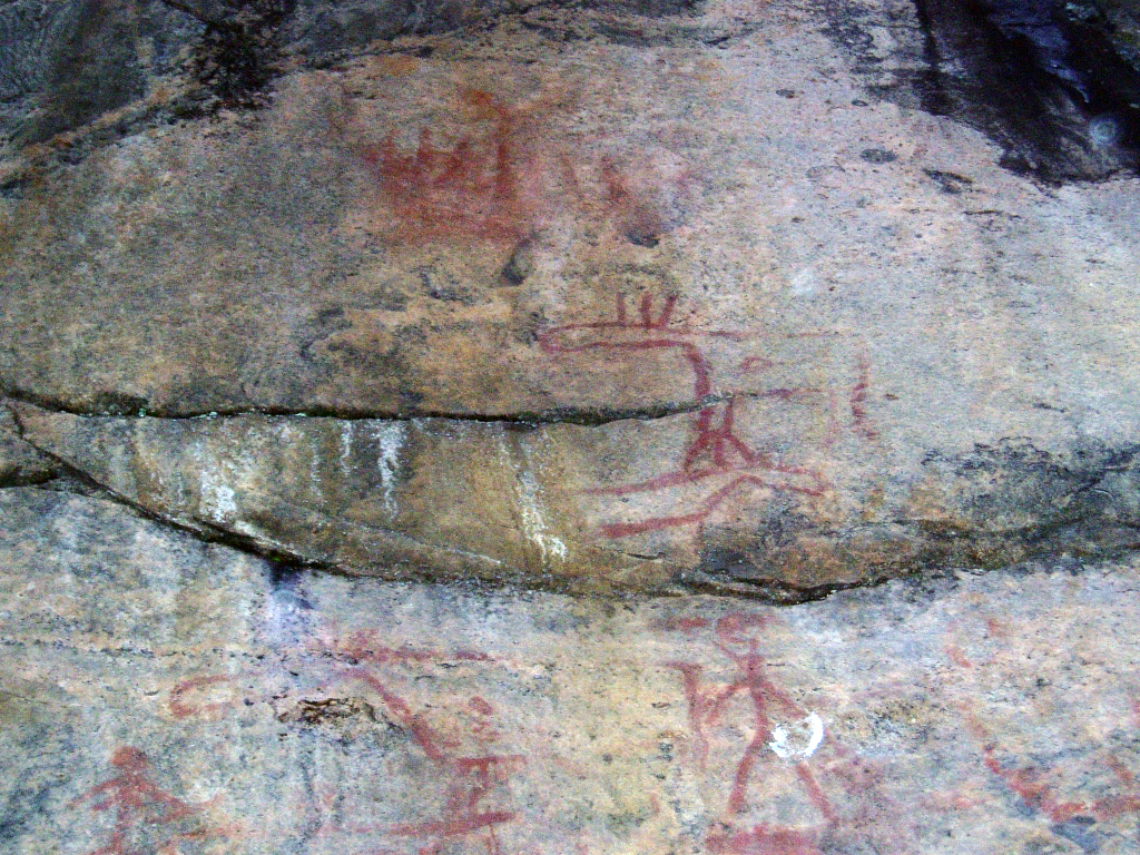 Astuvansalmi prehistoric rock paintings (moose, human figures and a boat) in Ristiina, Finland. Article at the UNESCO World Heritage Centre website